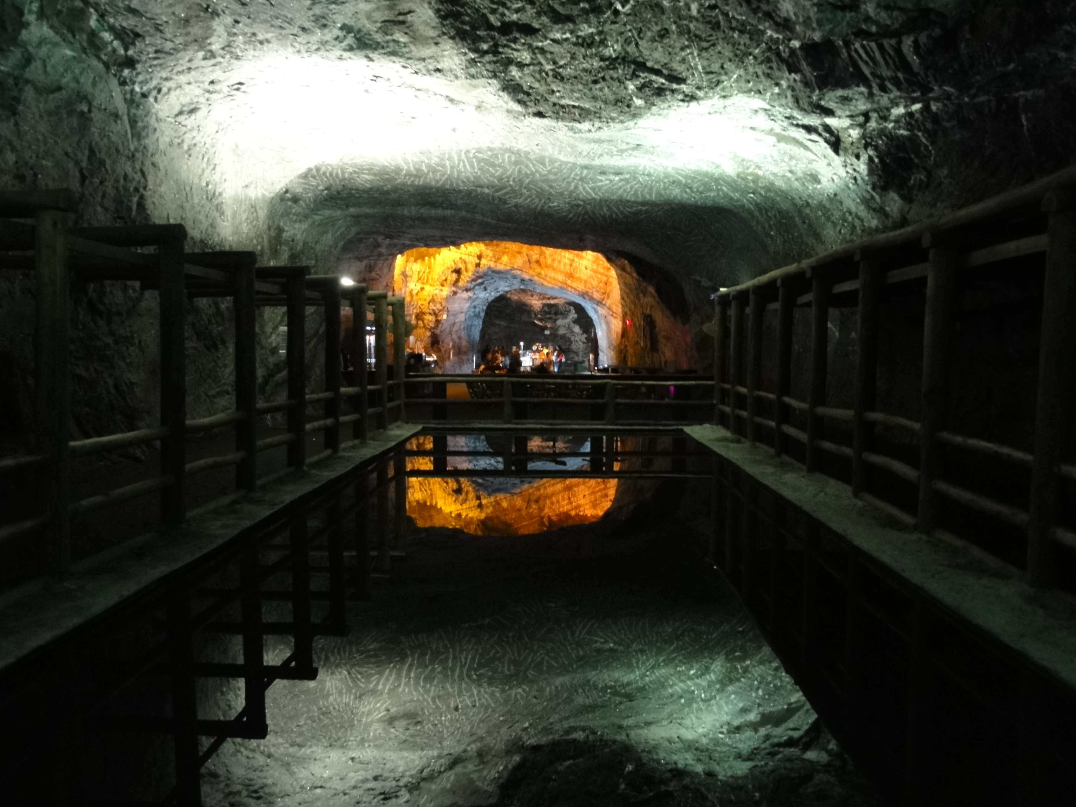 Water "mirror" in Zipaquirá